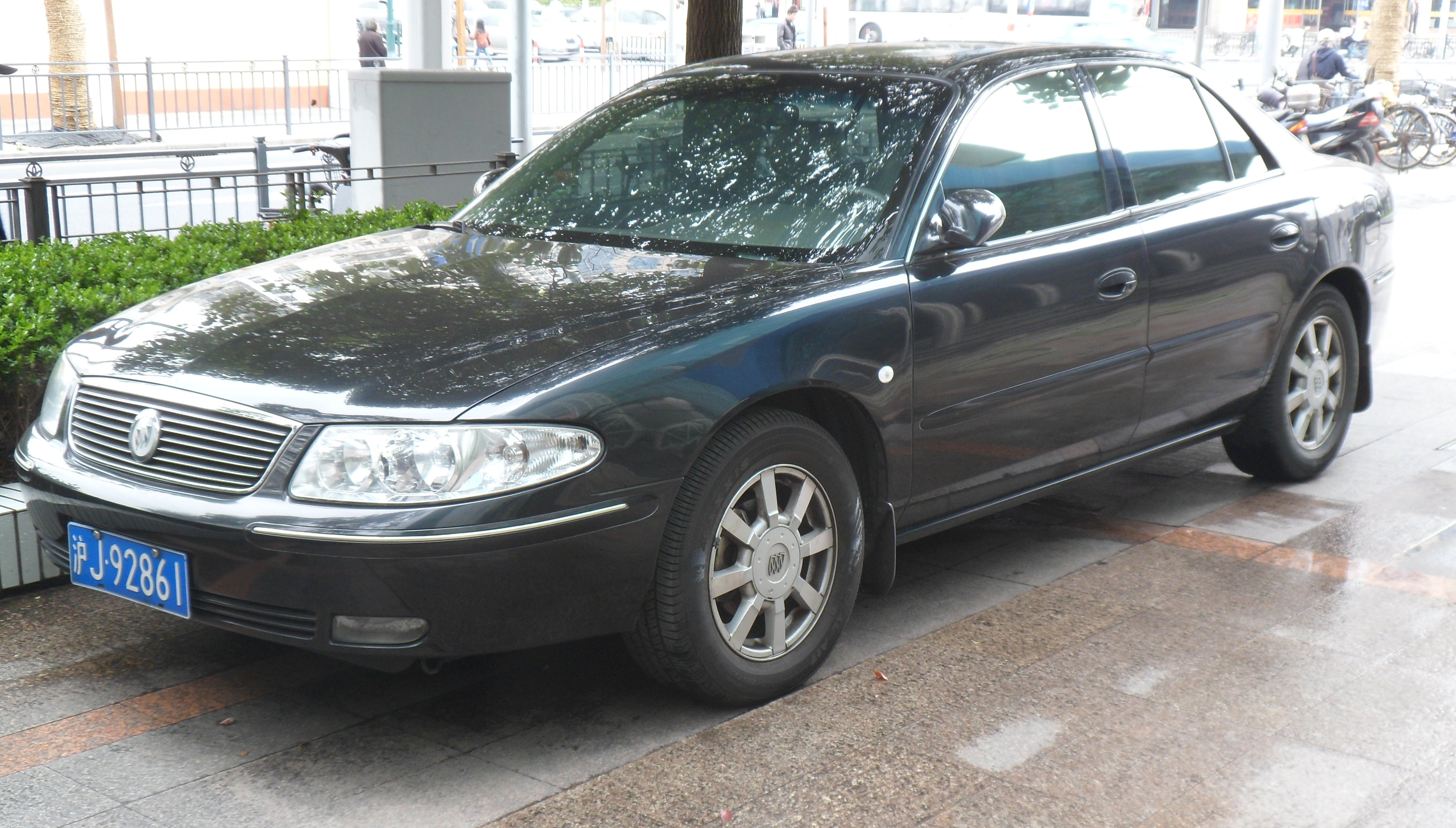 Buick Regal CN photographed in Shanghai, China.